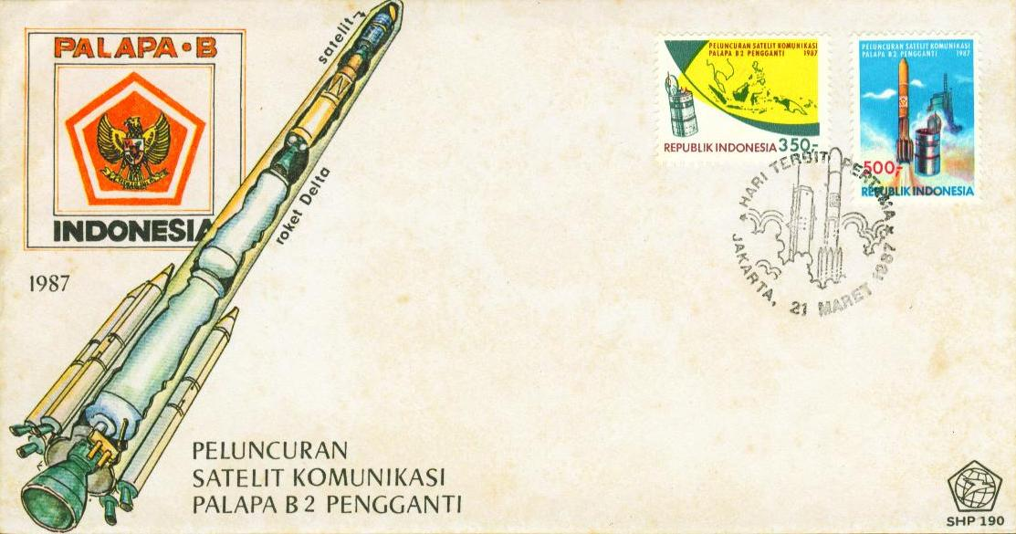 The first day cover of the 2 stamps that celebrates the launching of the Palapa B2P (B2 Pengganti) replacement satellite on 1987